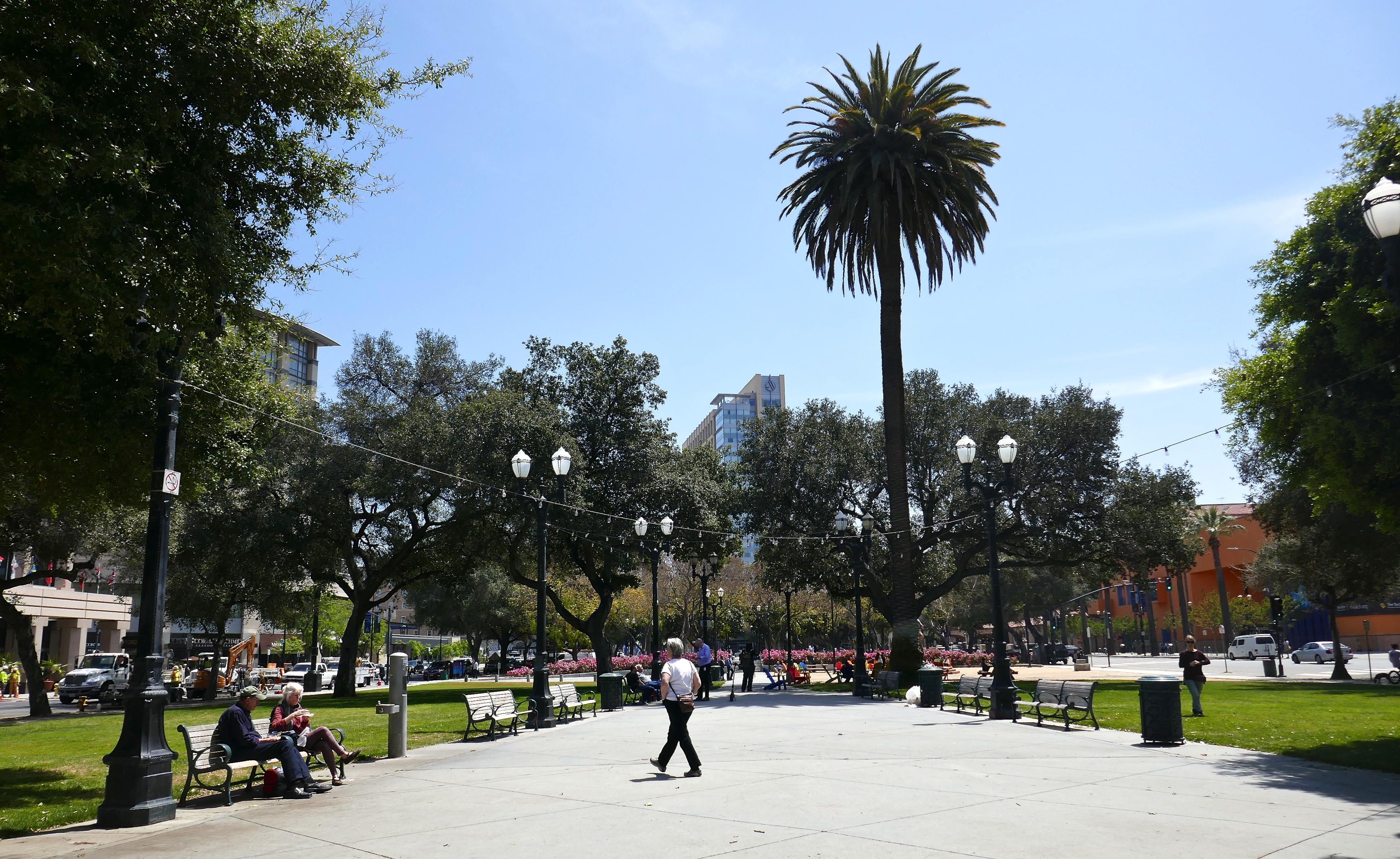 Catherine at Caesar Chavez plaza, San Jose